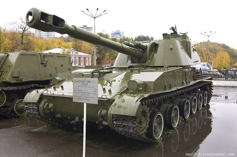 Self-propelled howitzer M1973 (2S3 Akatsiya) with 152-mm howitzer 2A33. Motovilikha Plants museum in Perm Russia.